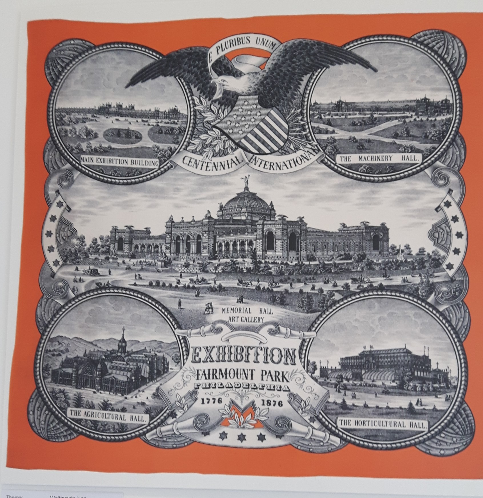 Handkerchief of Messrs. L. & G. Cramer, Bilk (Duesseldorf), Germany, later known as Gesellschaft fuer Baumwoll-Industrie, first shown at 1876 Centennial Exposition Philadelphia, measuring 57 x 52 cm, in May 2019 again shown in Museum Siegburg, Germany